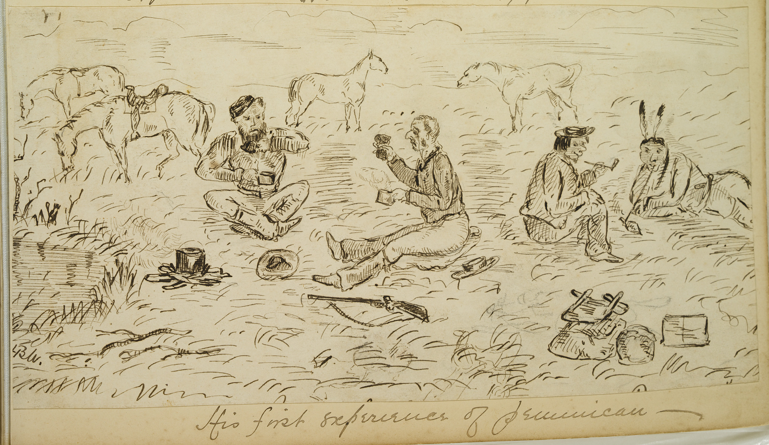 No known copyright restrictions. Please credit UBC Library as the image source. For more information, see Creator: Bullock-Webster, Harry, 1855-1942 Date Created: [between 1874 and 1880?] Source: Original Format: University of British Columbia. Library. Rare Books and Special Collections. Sketches of Hudson Bay life by H. Bullock Webster 1874-1880 Permanent URL